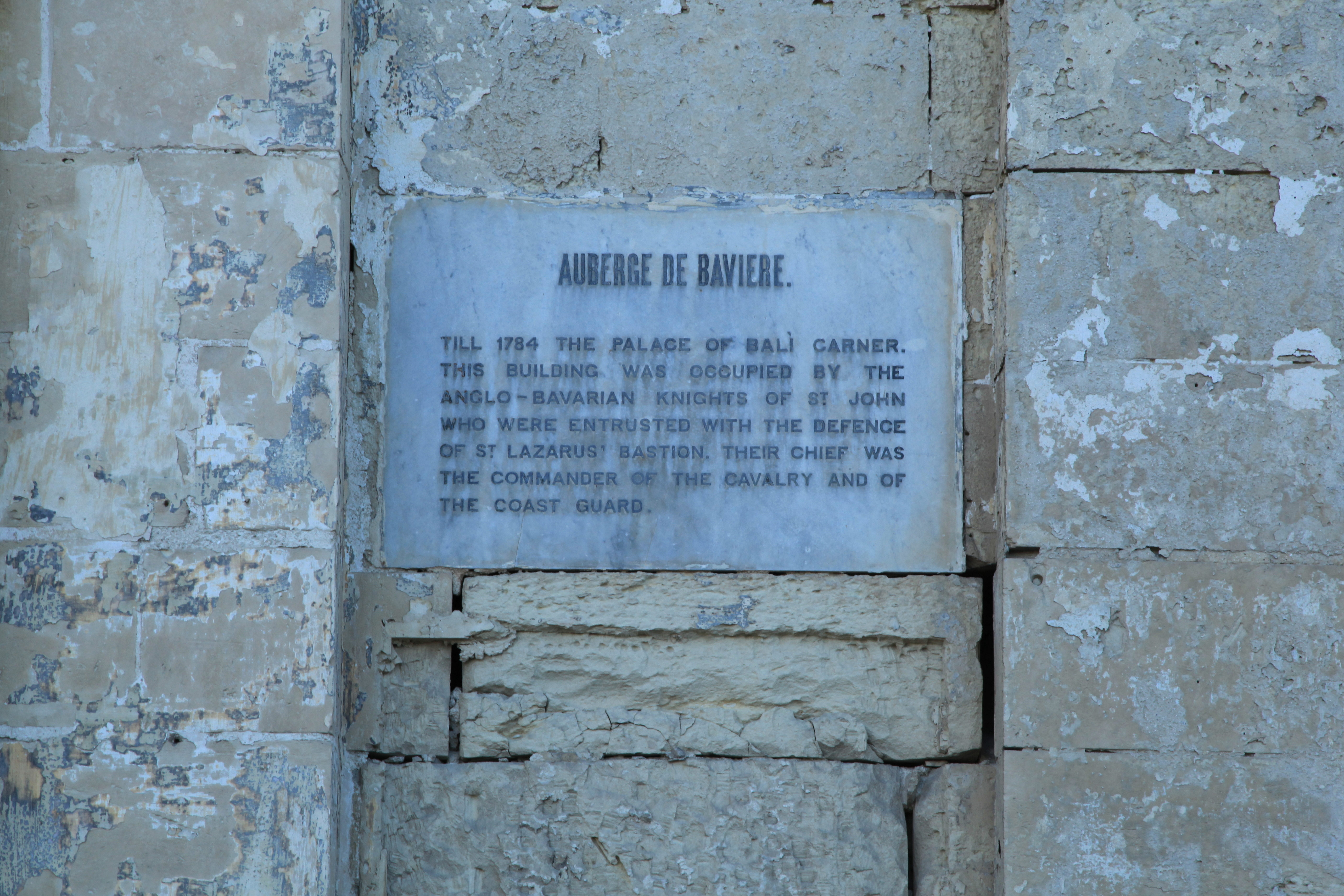 Auberge de Bavière, Triq San Bastjan in Valletta, Malta